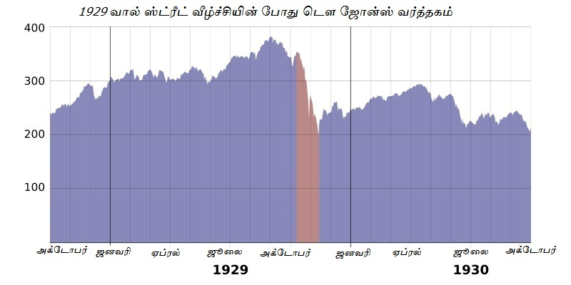 graph showing tradind of dow jones during wall street crash 1929 tamil